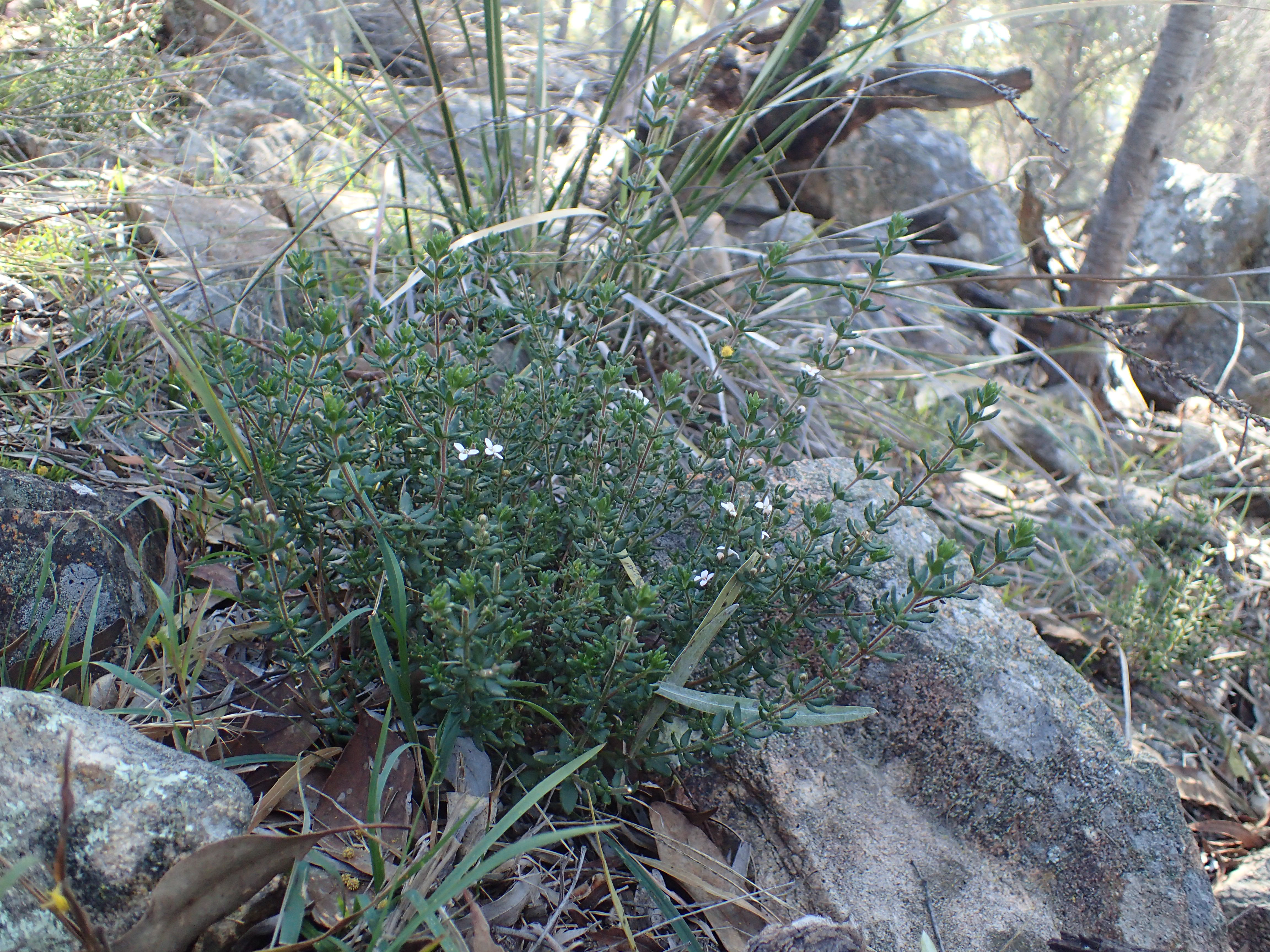 Zieria odorifera growing near Invergowrie (N.S.W.)